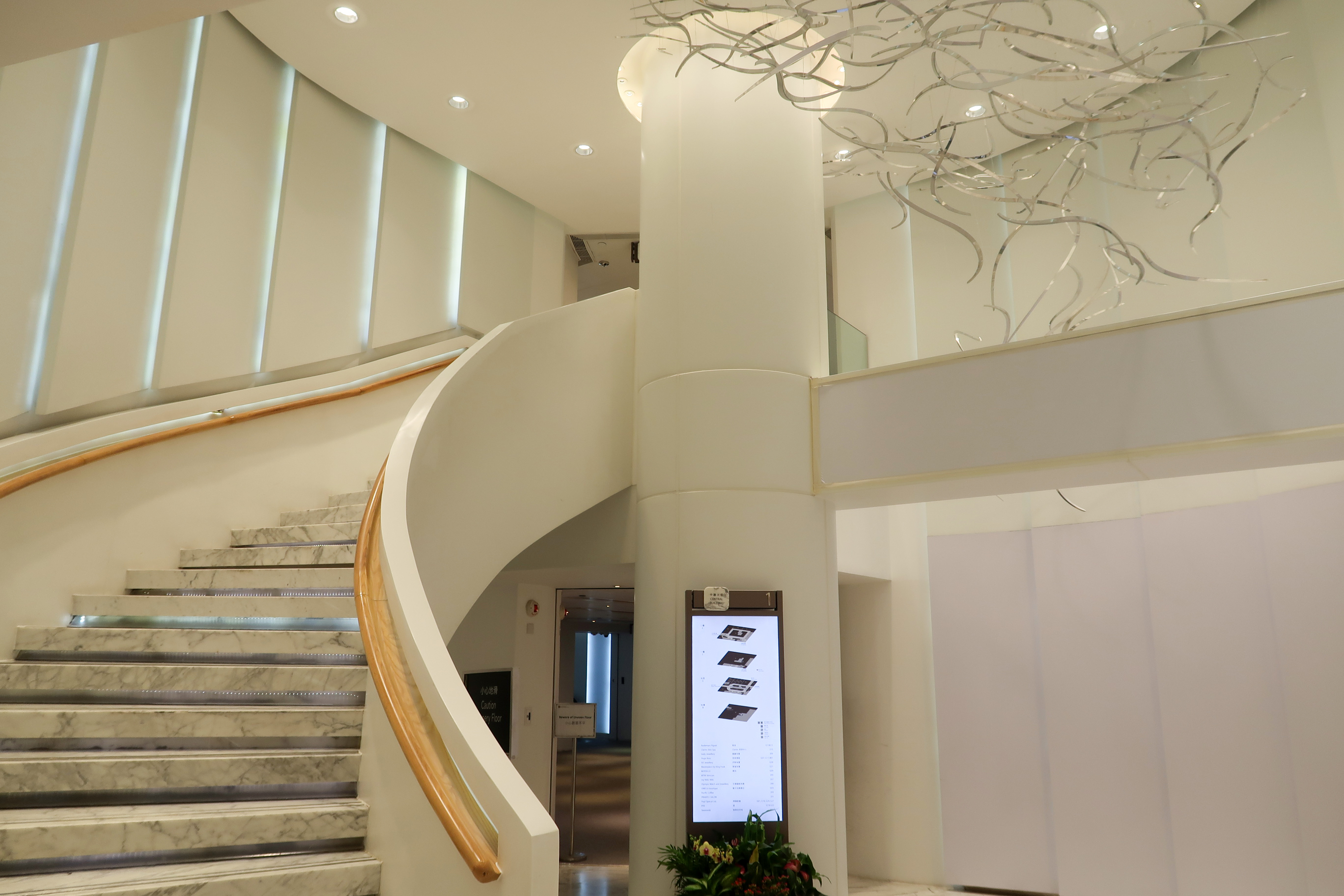 Central Building link to Landmark